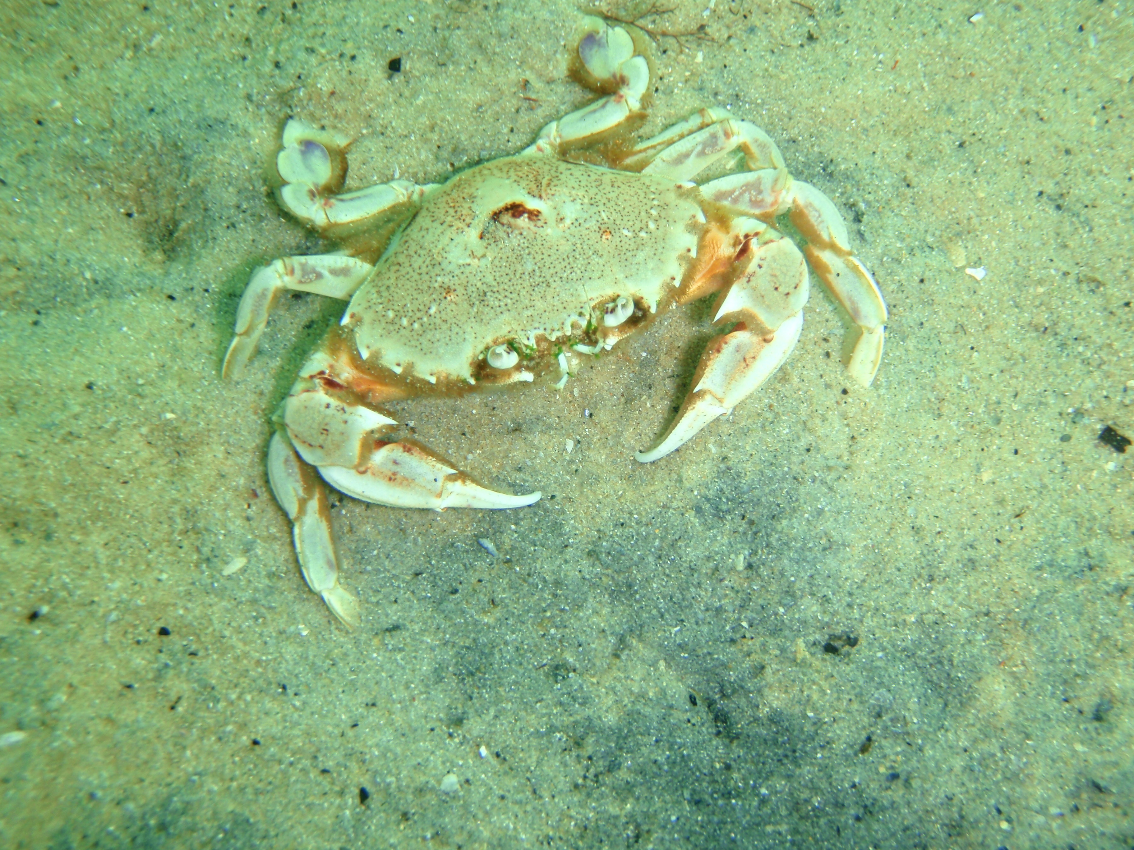 Three spot swimming crab at Long Beach, Simon's Town